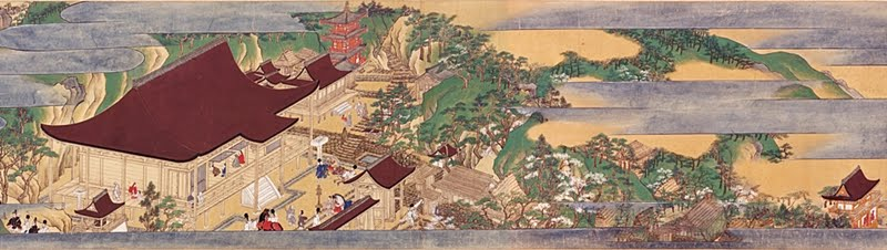 From picture roll Kuwanomi engi emaki